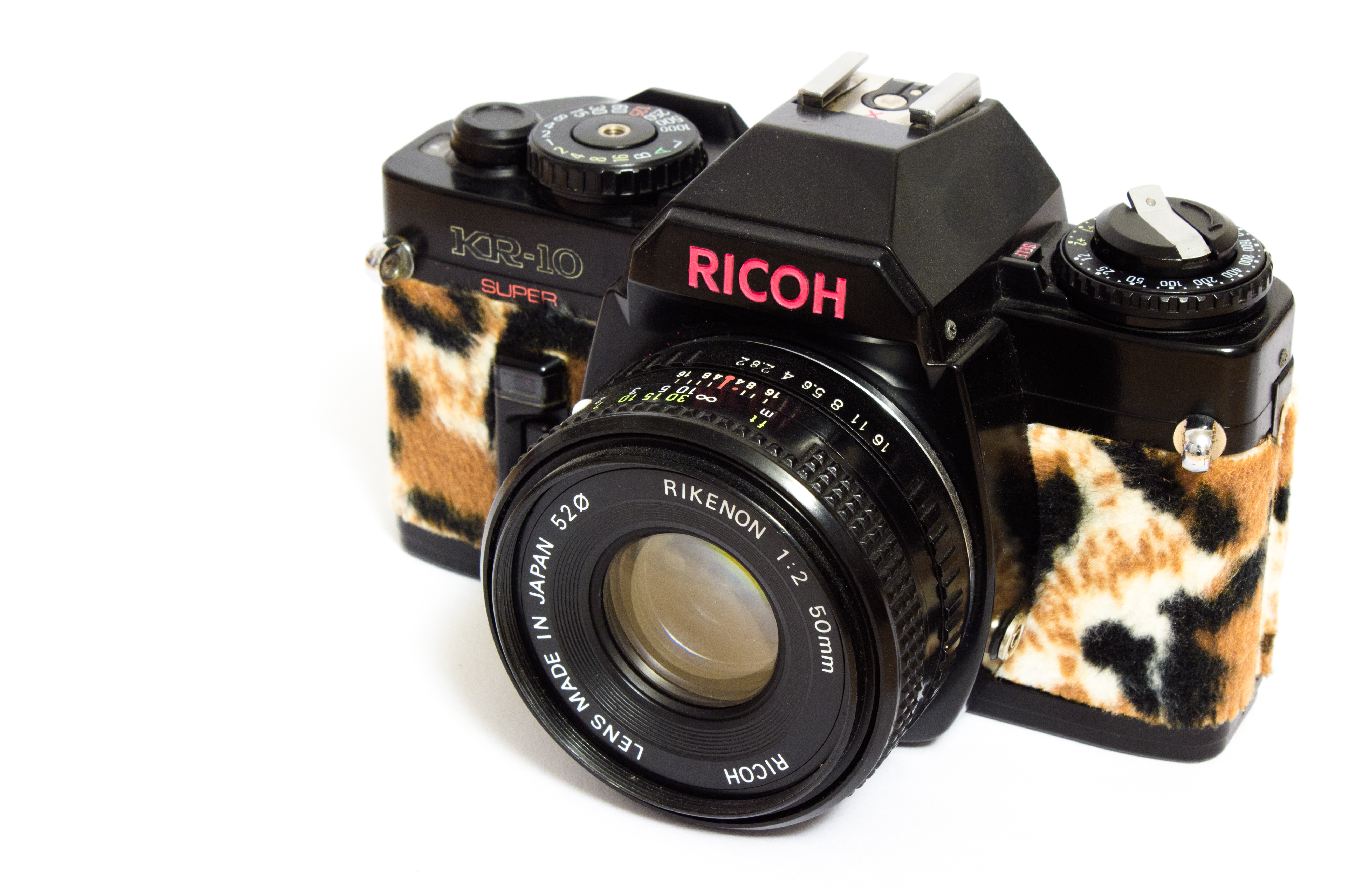 Home studio shot of a party version of the Ricoh KR-10 Super analog camera with its standart 50mm f2 Rikenon lens.